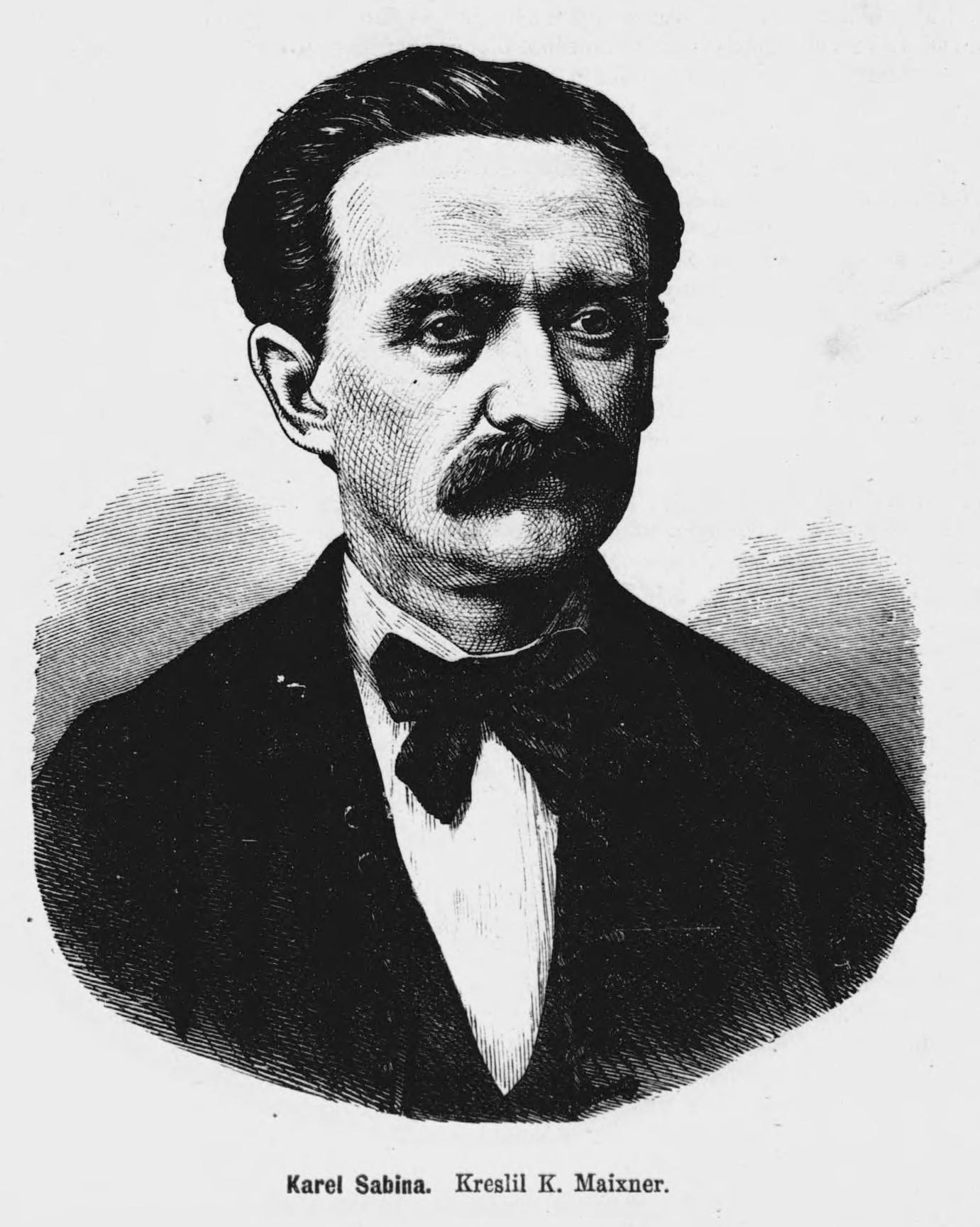 Portrait of Karel Sabina (1813 - 1877), Czech writer and 1848 revolutionary that later became a secret police agent.